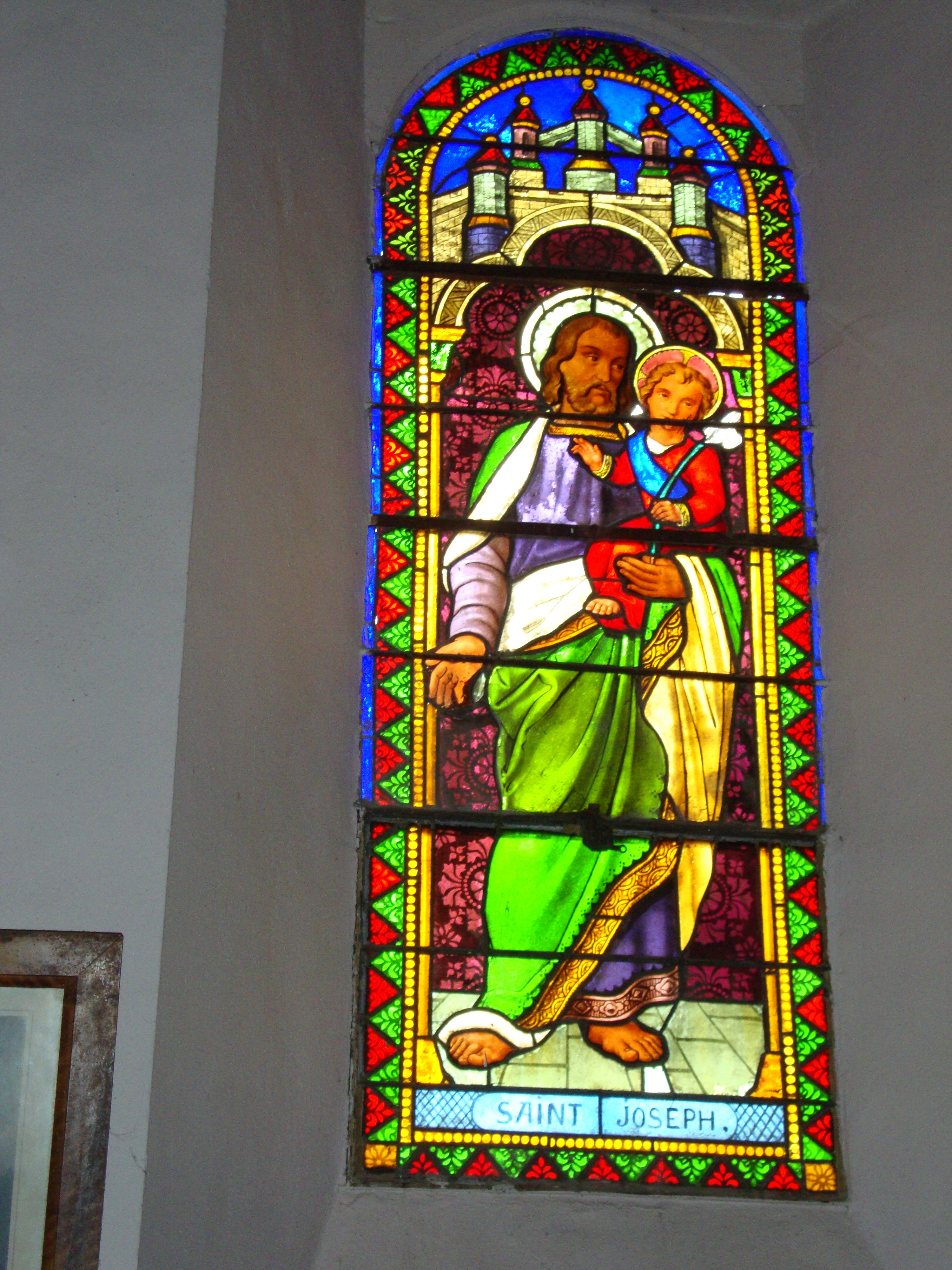 Osse-en-Aspe, stained glass window with saint Joseph and child; created by the workshop of Mauméjean in the fourth quarter in the 19th century (see signature at the other window by the same artist and [1])